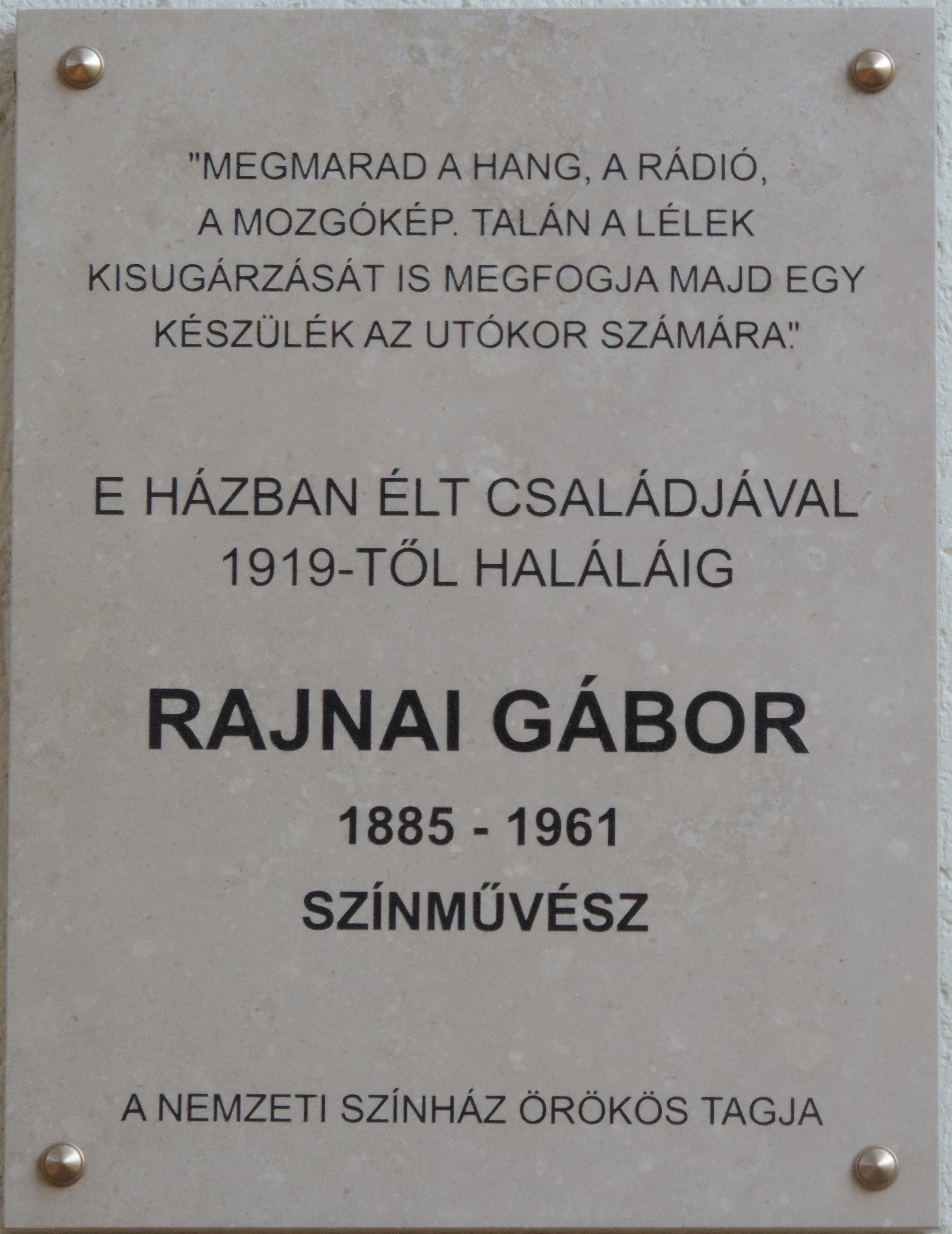 Plaque of Gábor Rajnai (Budapest District II, Tárogató út No 77)